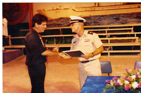 admiral Ami Ayalon presents citation to captain Mike Eldar